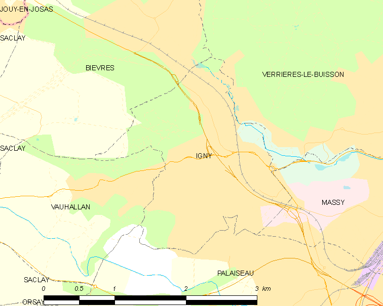 Map of French municipality Igny